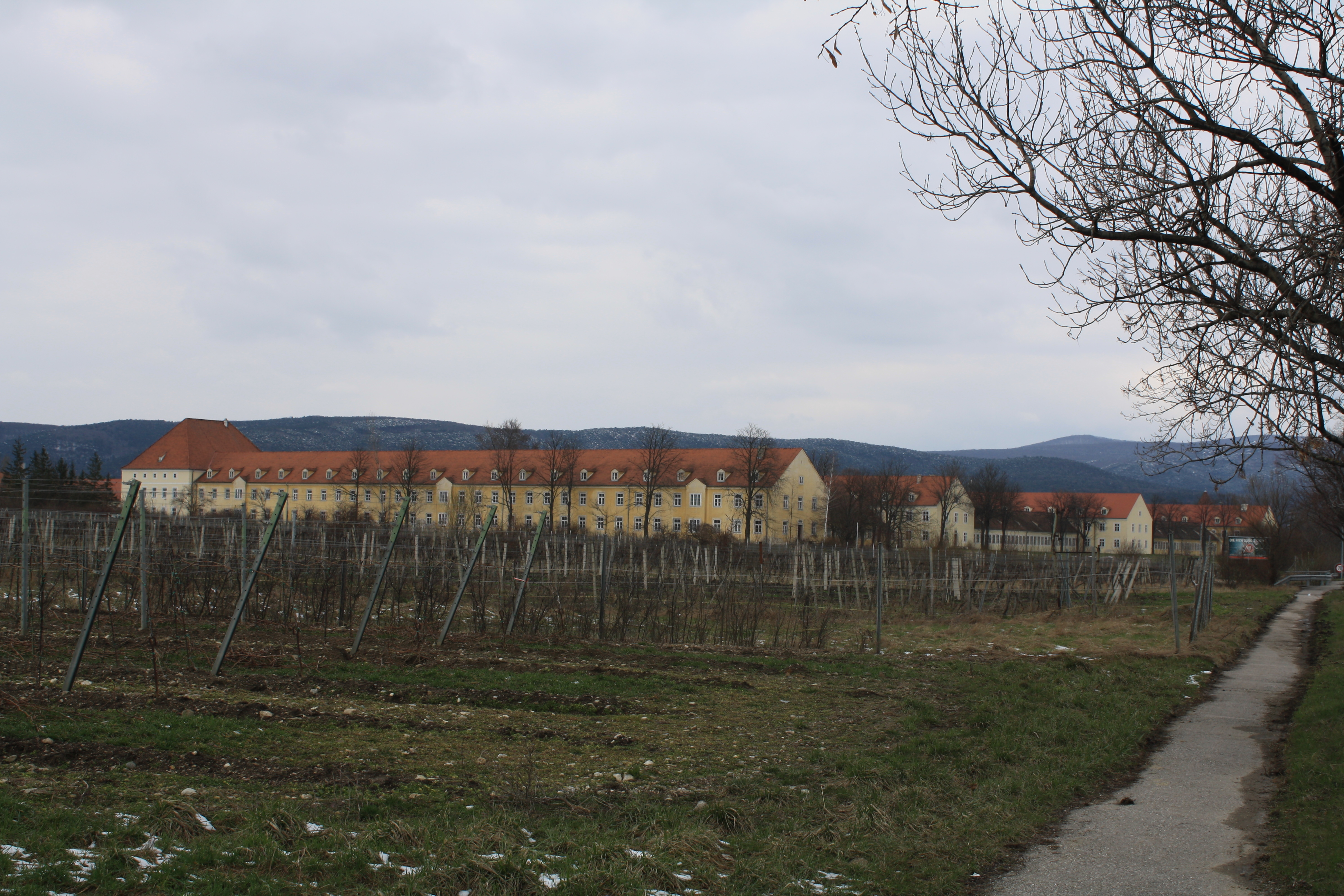 Military barack (Martinek) in Baden Lower Austria